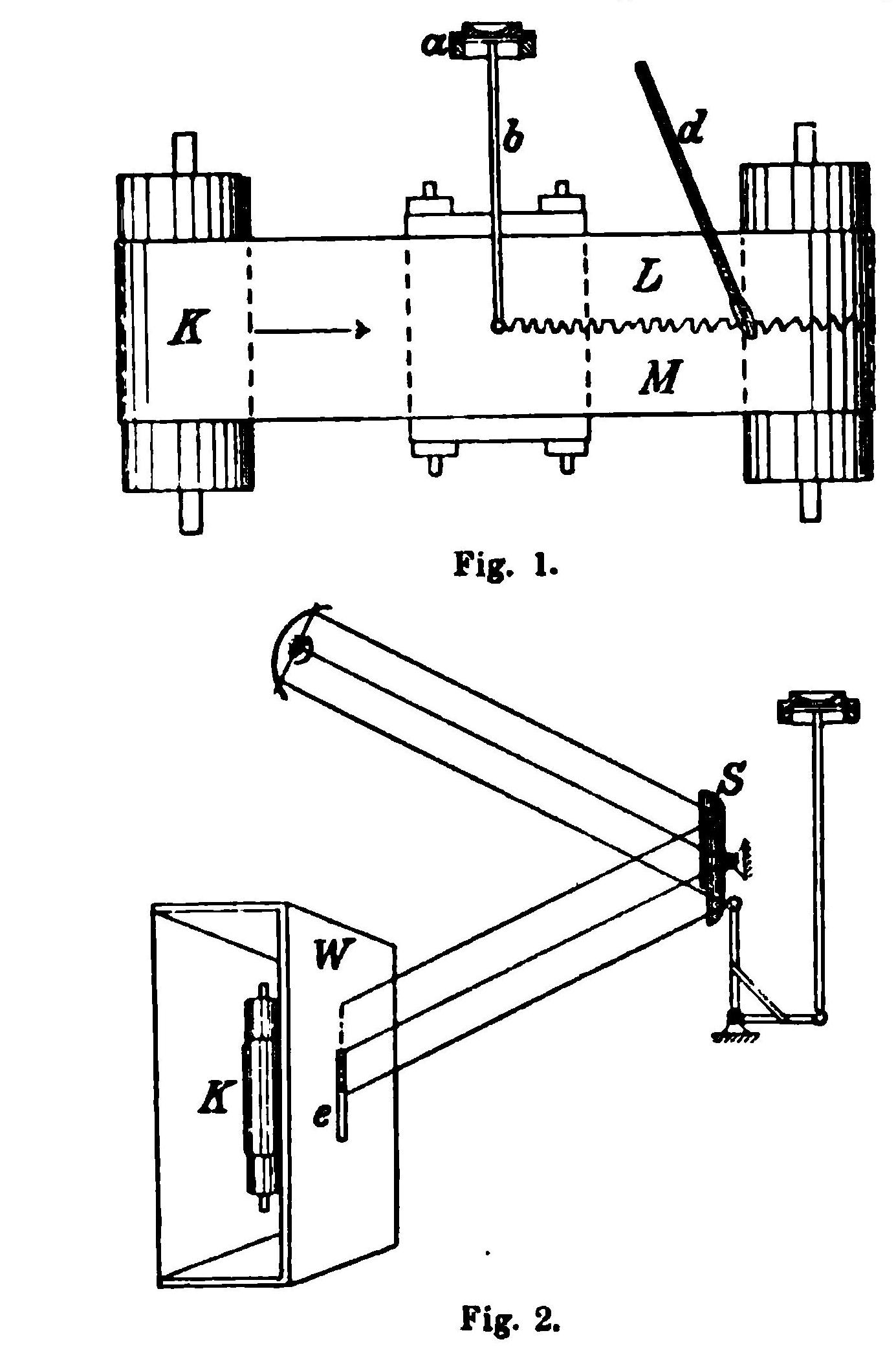 Wikszemski's phonograph (1889)